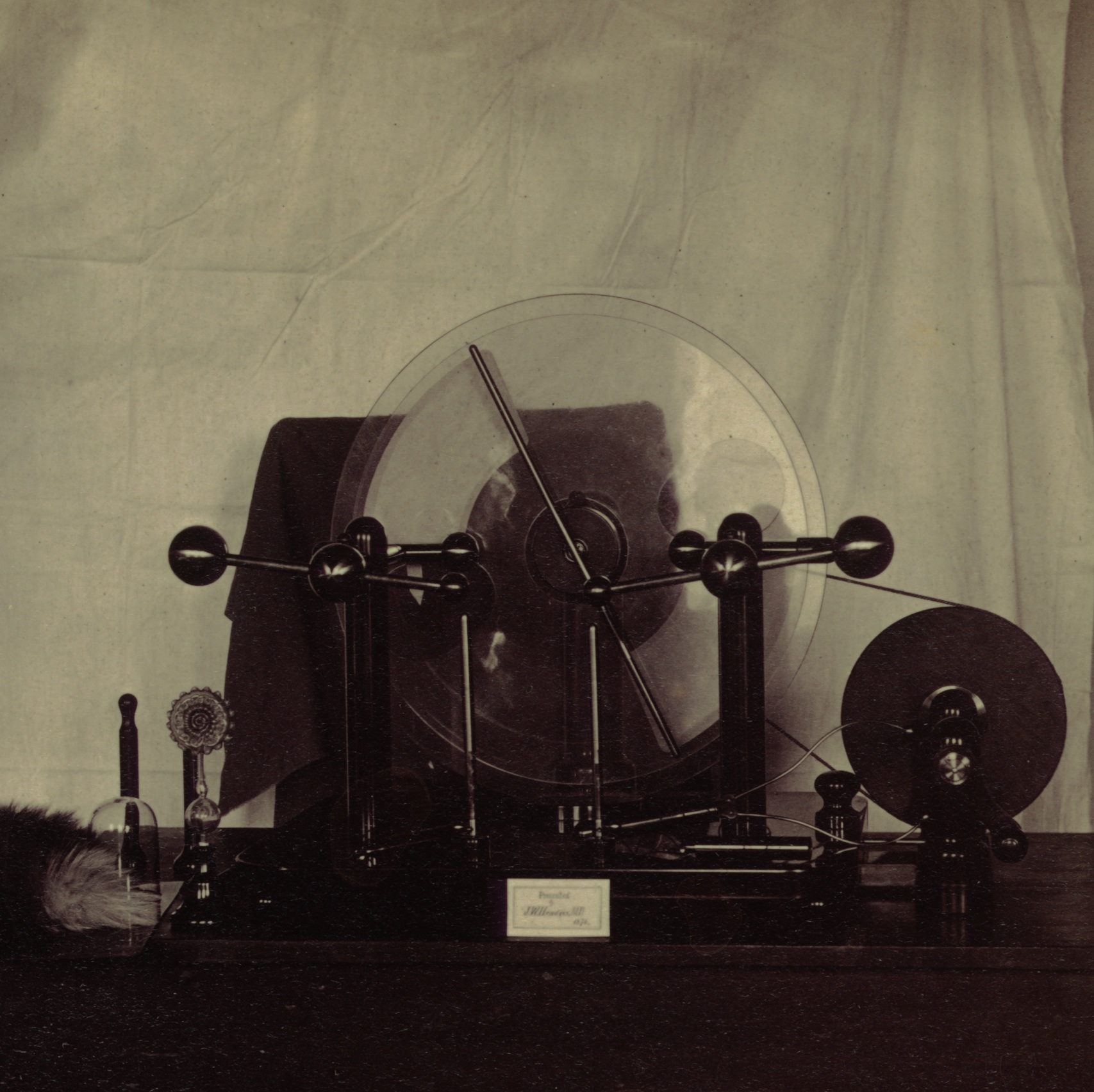 In 1865 Wilhelm Holtz invented the "Holtz Electrostatic Influence Machine", which was an electrostatic induction generator that converted mechanical work into electrostatic energy, and only needed an initial charge to begin operation.